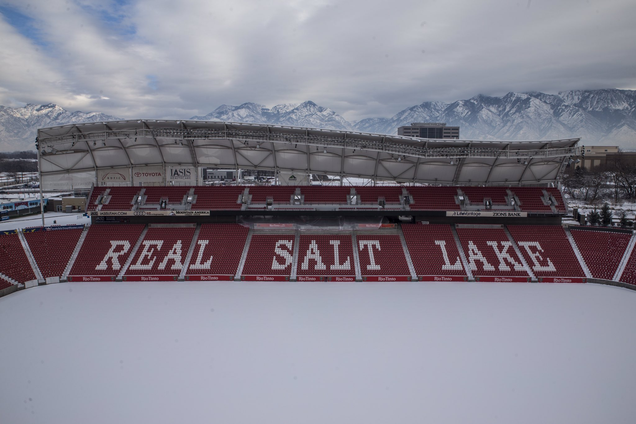 Rio Tinto Stadium after heavy snowfall in Salt Lake City on December 28th, 2016